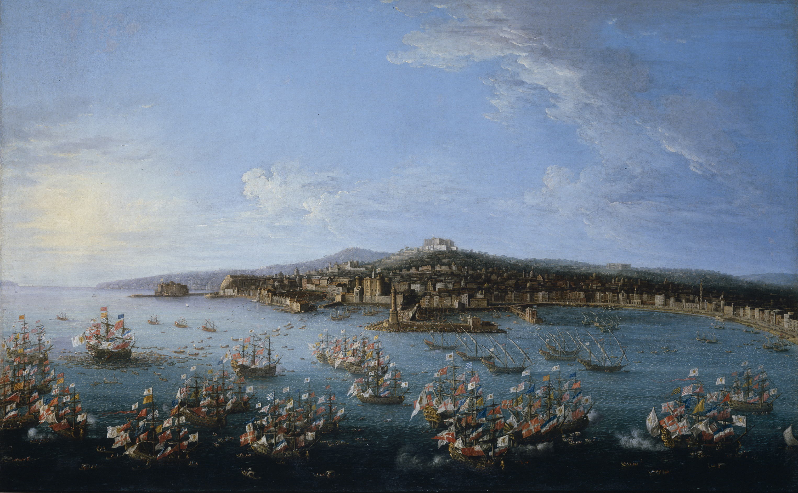 Carlos III leaving the Port of Naples, as seen from the Sea